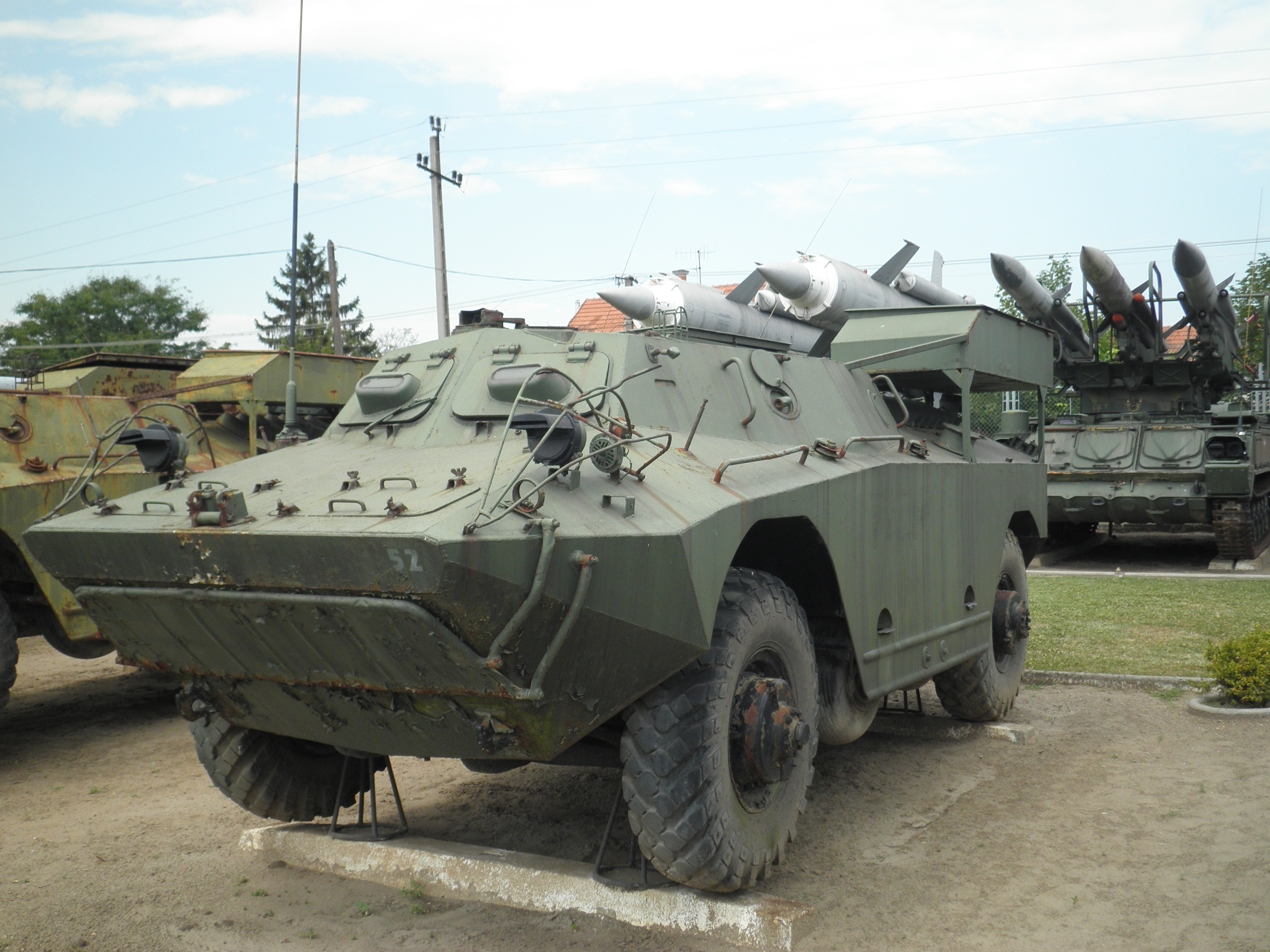 D-442.03 VS-FUG NBC reconnaissance vehicle in Army History Museum and Park in Kecel, Hungary